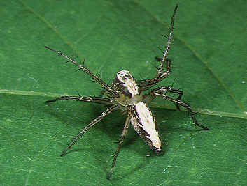 female Oxyopes sertatus from Okinawa.